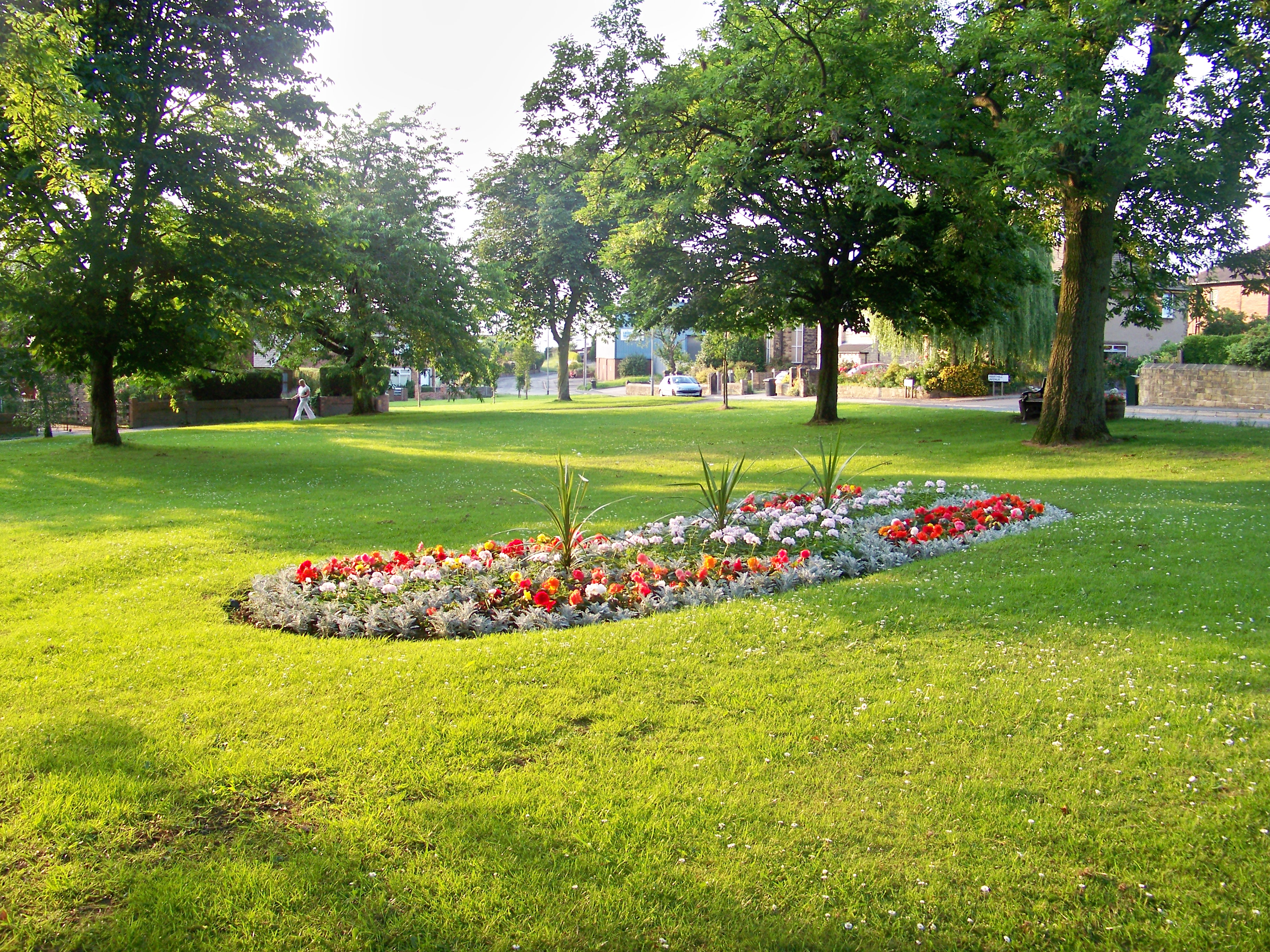 The village green in Gildersome, Leeds, West Yorkshire, UK. Taken on the evening of Wednesday 1st July 2009.